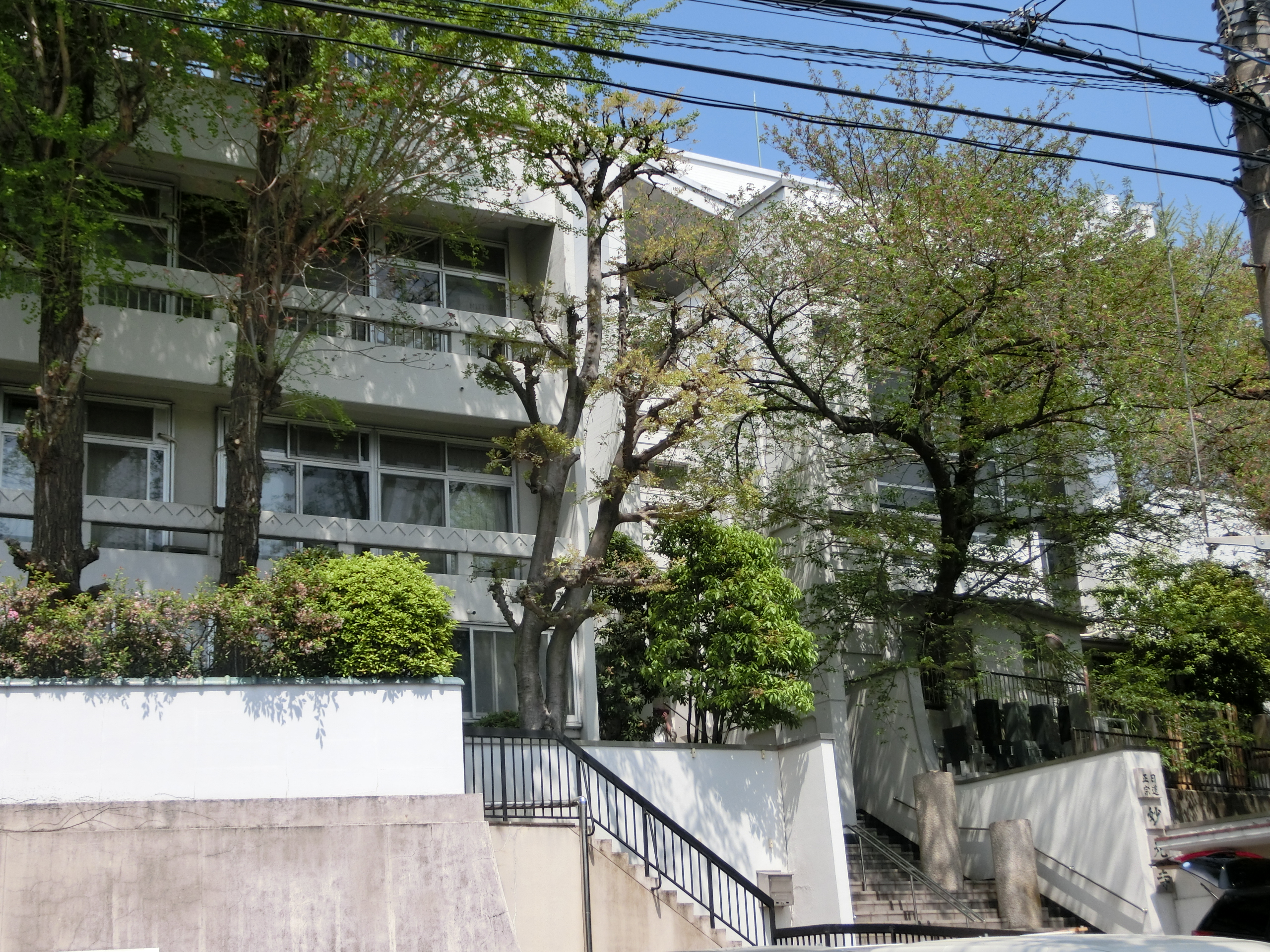 Myoko-ji (Shinagawa)